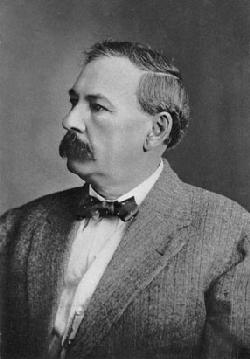 image of Wyoming Governor Frank L. Houx